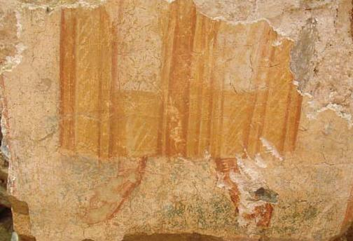 Old fresco in the Church of St. Athanasius-Old monastery in Lešok, Macedonia